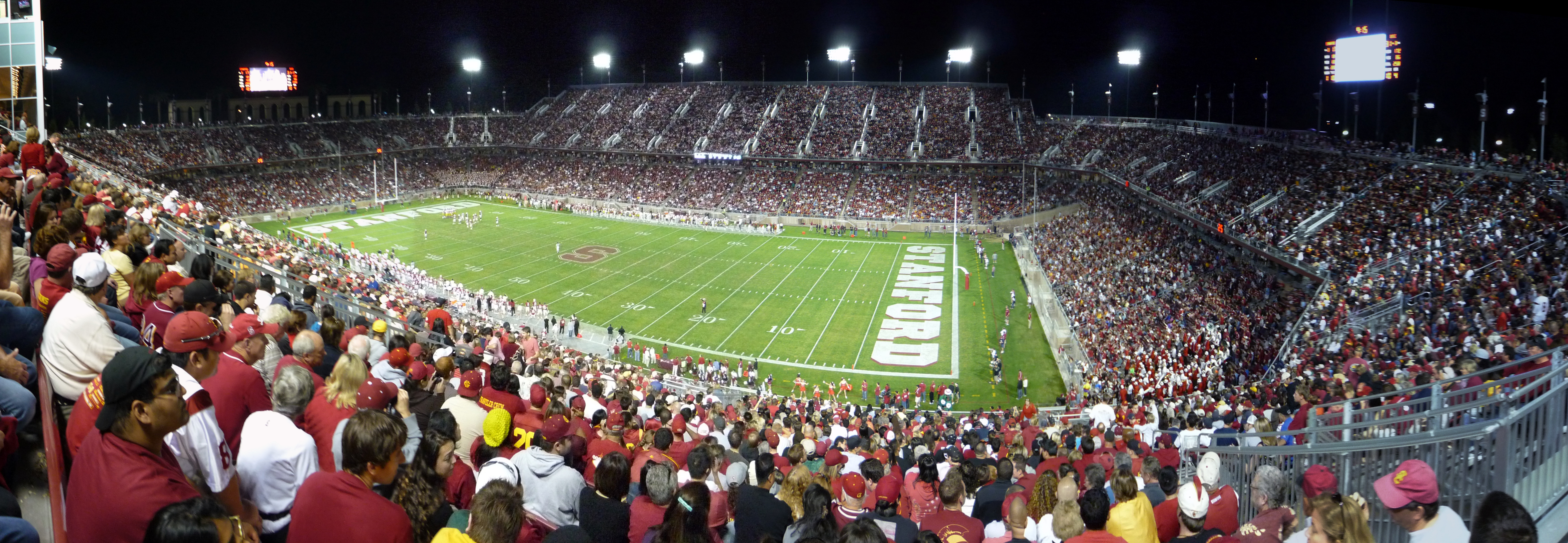 Fourth quarter of a college football game between the visiting No. 6 USC Trojans and the Stanford Cardinal at Stanford Stadium on November 15, 2008. It was the first sold out game at the new Stanford Stadium, which opened in 2006. USC would win, 45–23.